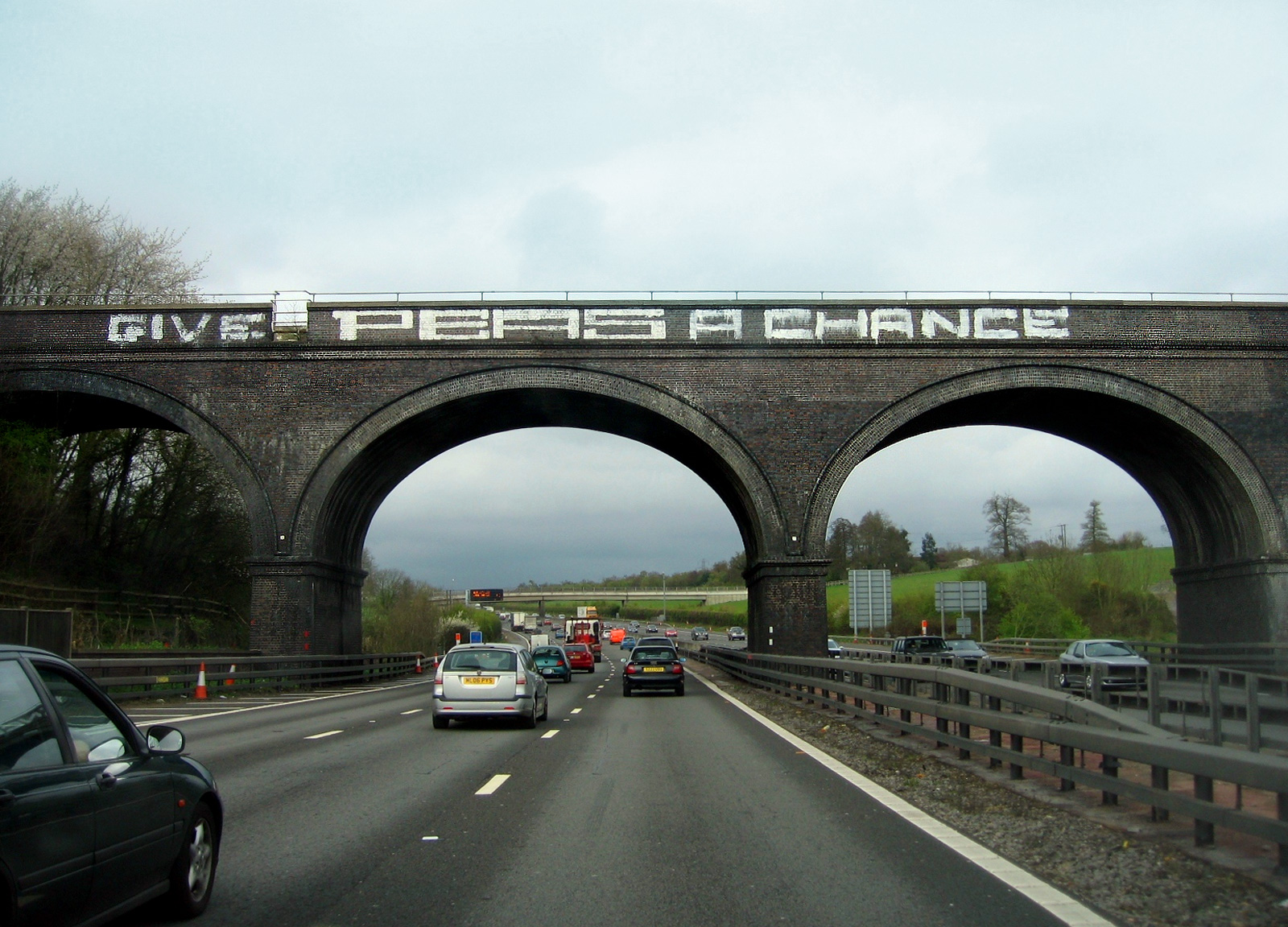 Give Peas A Chance. A well known bit of graffiti on the Amersham viaduct which now days crosses the M25 just north of the M40. I wonder whether the Victorian engineers who built it to carry a railway across a stream had a crystal ball since 70 years later the arches were wide enough for a three lane motorway to pass underneath. This view is constantly changing as an extra lane is currently (Feb 2010) being added to the M25. See 334301 for a much earlier view as well as slightly different wording. Oh yes, and for the regular contributors to the site, this is my 14,000th photo to be uploaded!